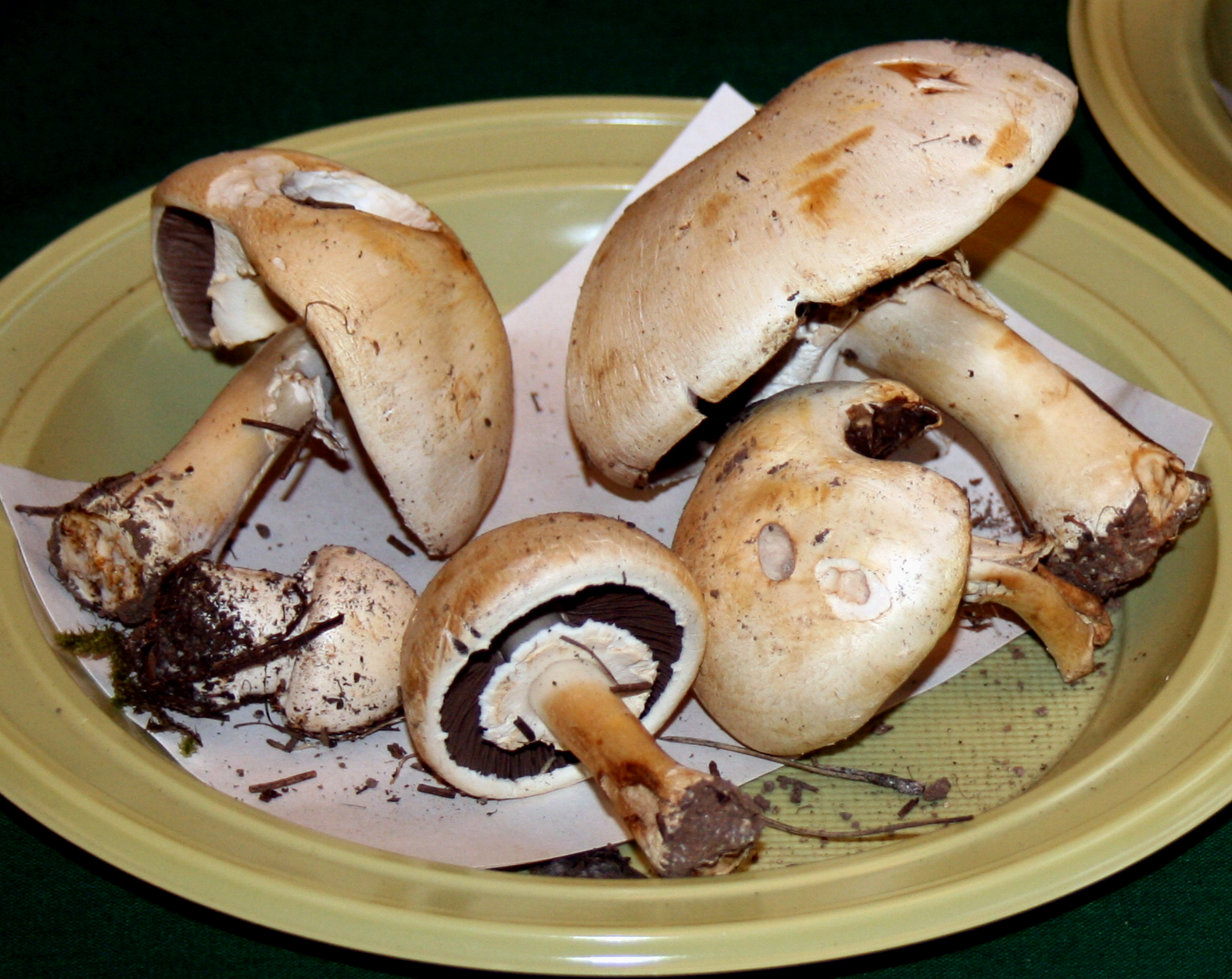 Agaricus arvensis Agaricus arvensis on Prague international mushroom exhibition 2008, Czech Republic